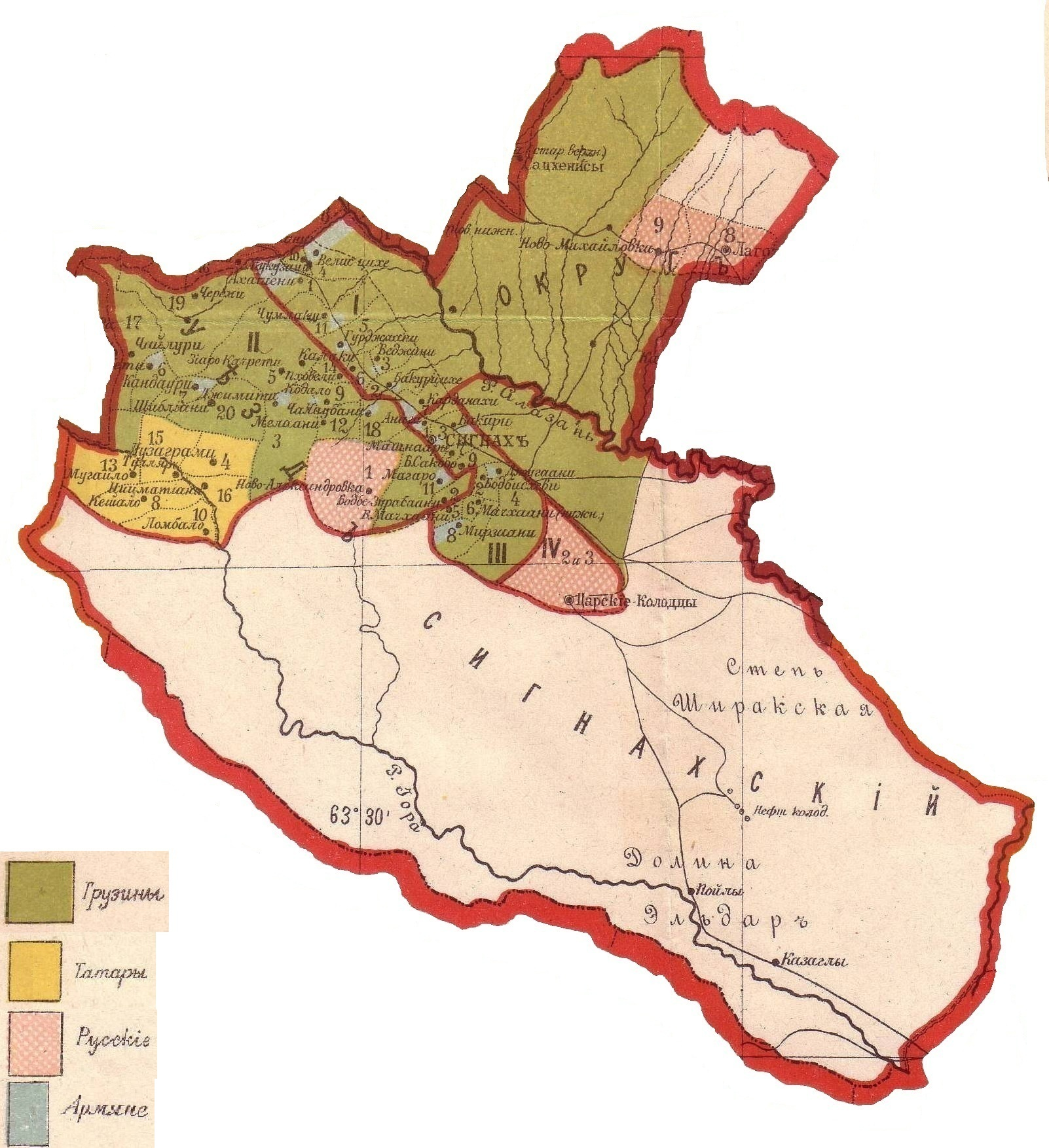 Ethnographic map of the Signakhi uyezd